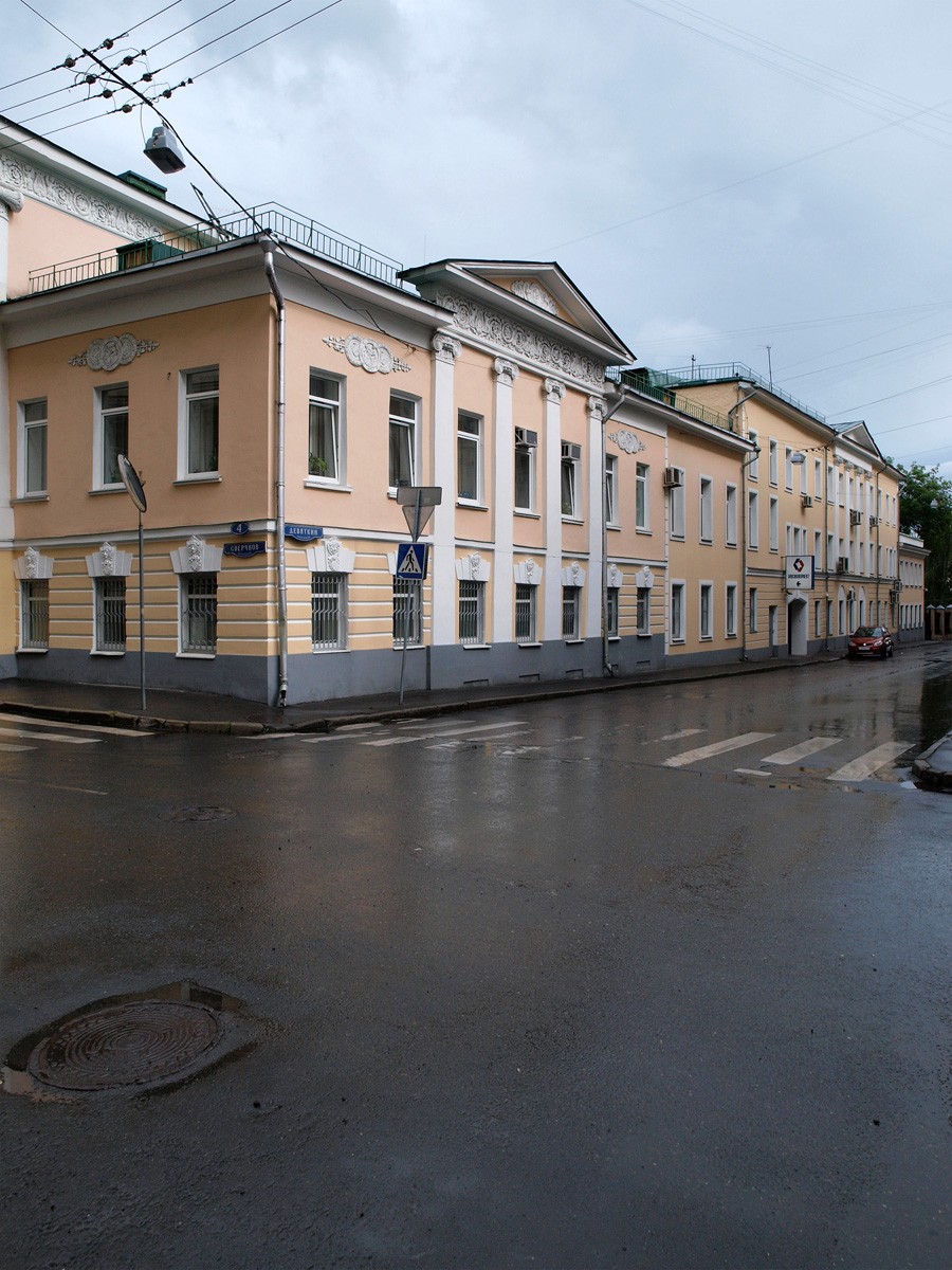 Corner of Devyatkin (right) and Sverchkov (left) lanes in Moscow, off Pokrovka Street. I. V. Lavrentyev house, 1820s.